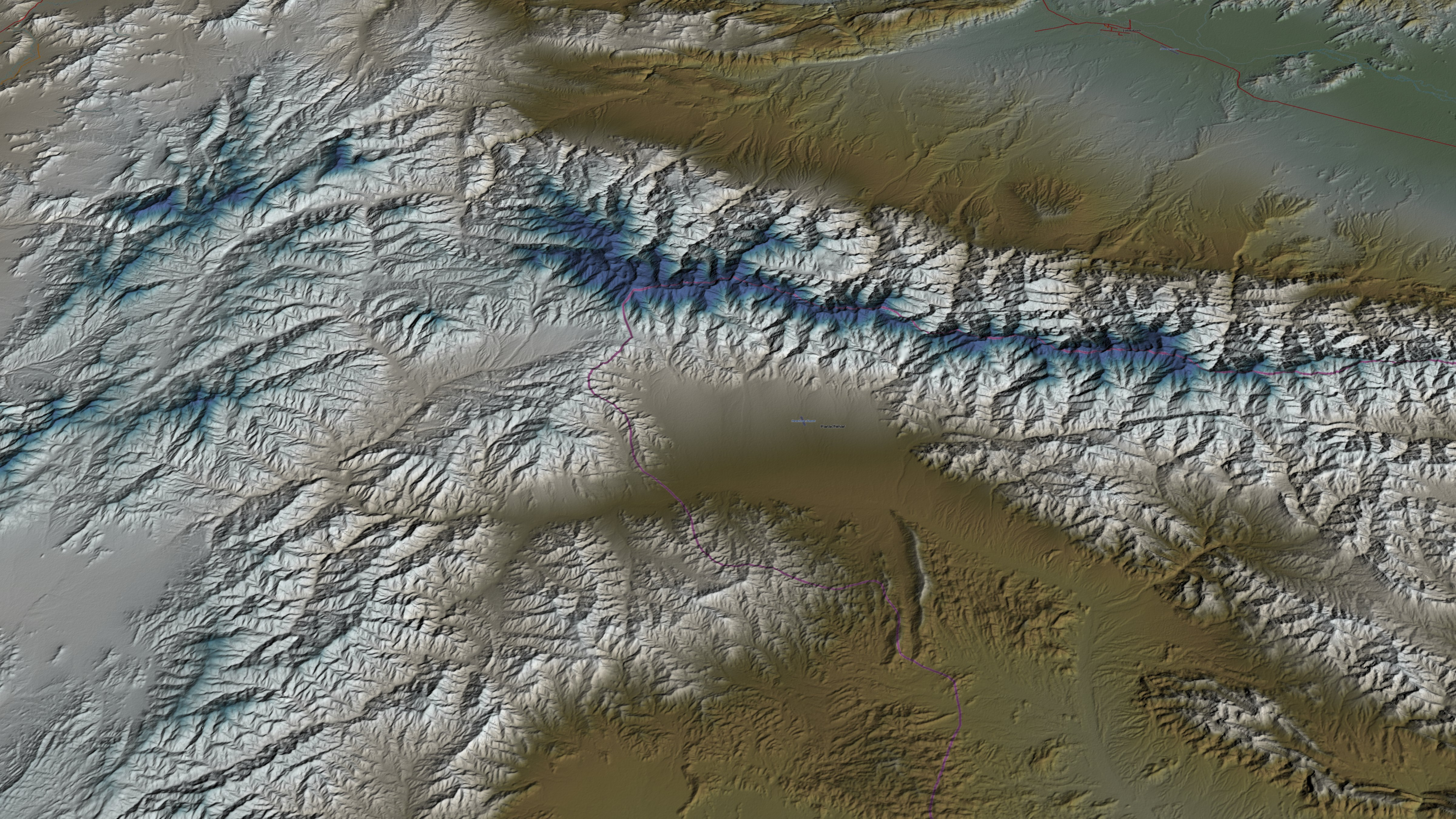 Tora Bora, Afghanistan (upper right) and Parachinar, Pakistan, computer image generated using TruFlite